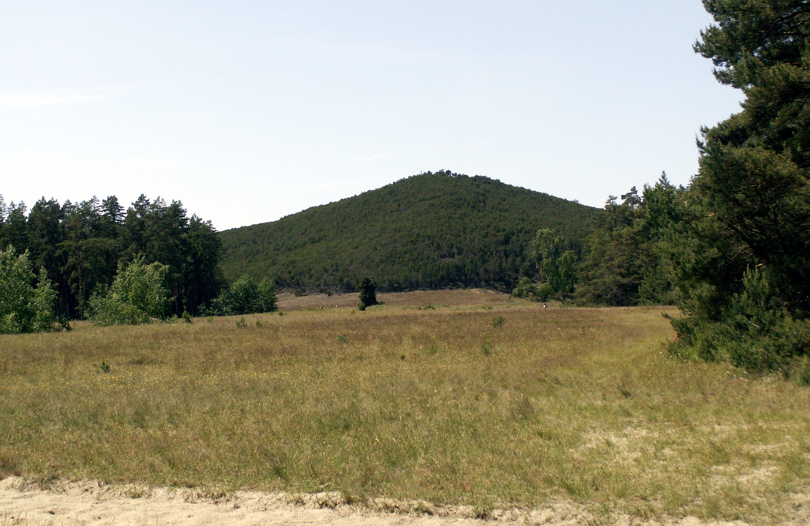 Vecekrug hill in Neringa, Lithuania